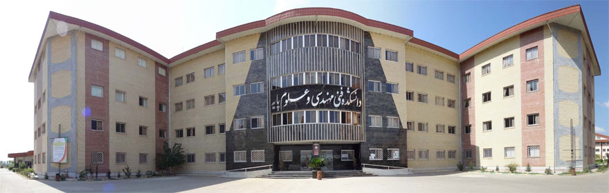 fanisari